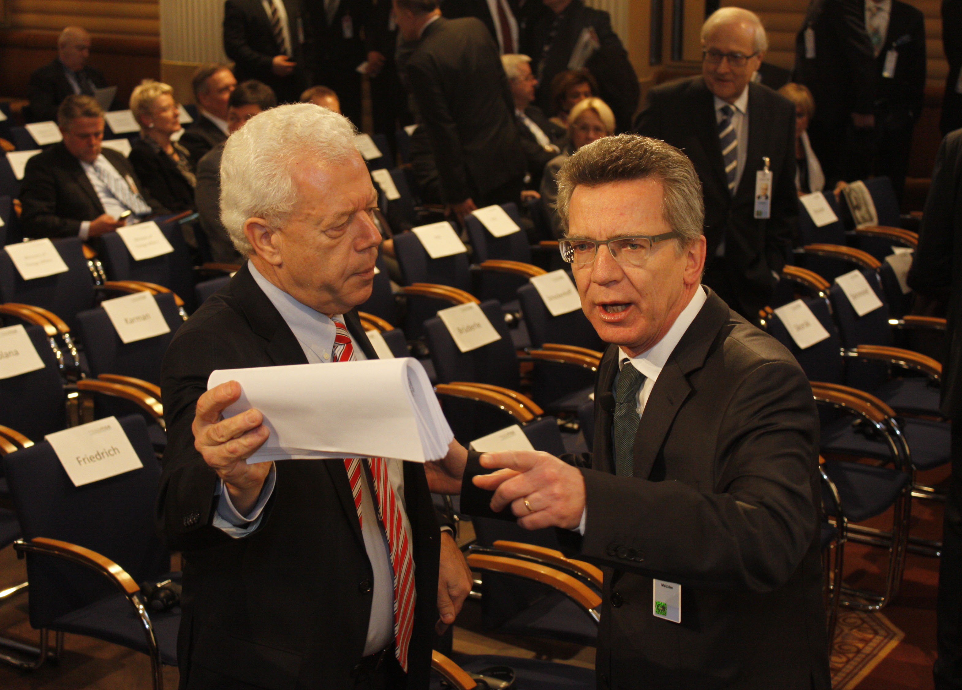 48th Munich Security Conference 2012: Dr. Thomas de Maizière (ri), Minister of Defense, Germany, in Conversation with Udo van Kampen (le), ZDF Brüssel.